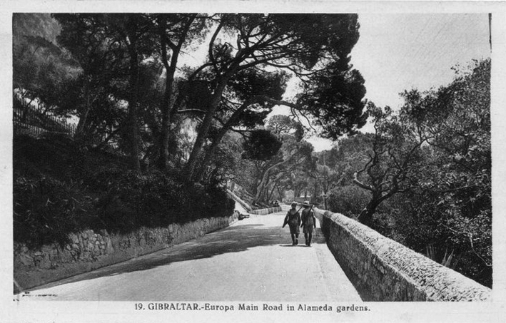 Old photo postcard of Europa Main Road in the Alameda Gardens, Gibraltar.